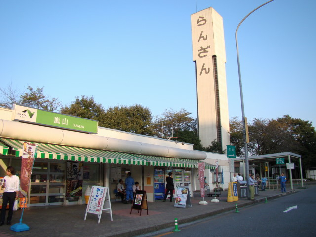 Kan-etsu expressway Ranzan parking area Tokyo side Saitama Japan